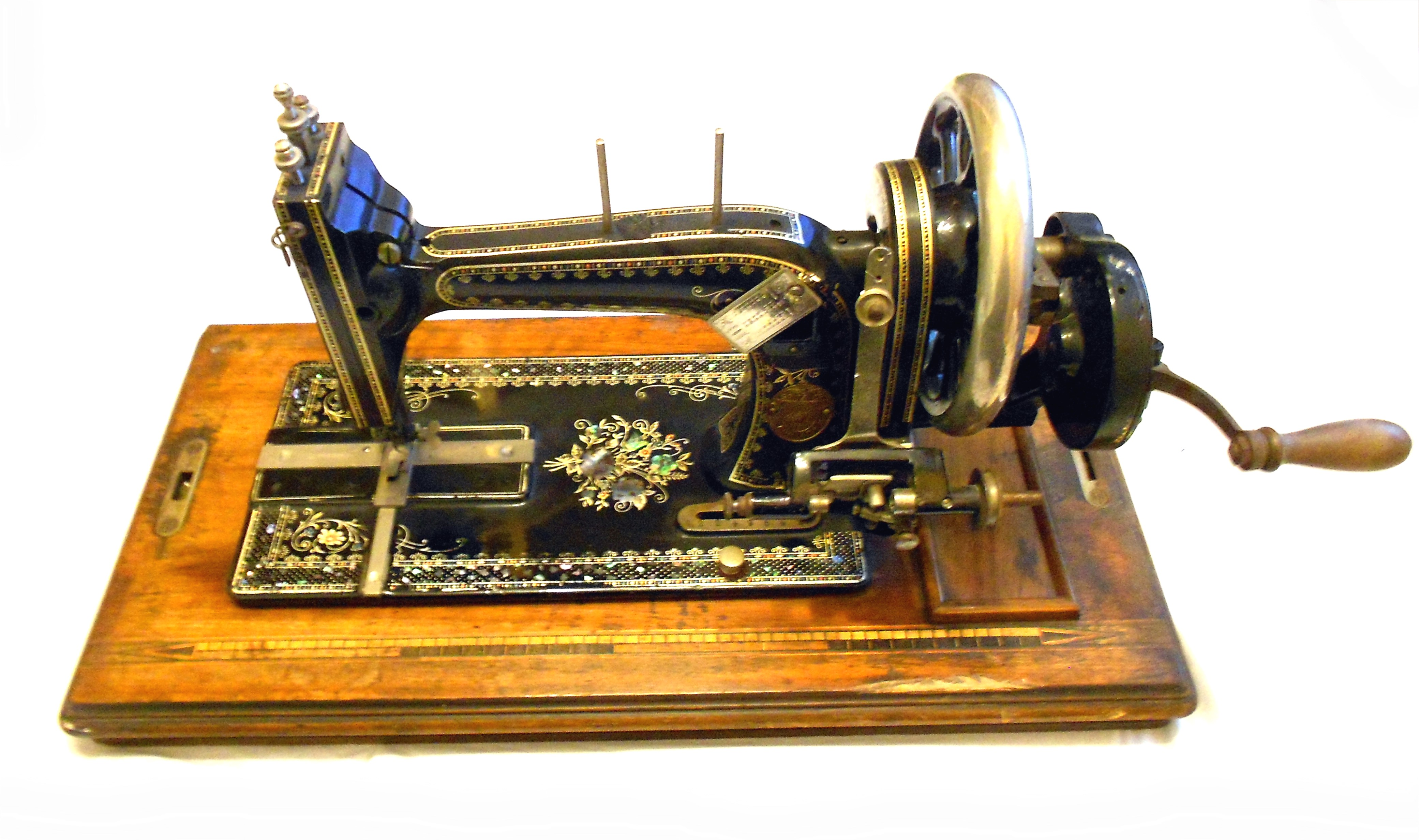 A German Gritzner Number 1 sewing machine from about 1930.